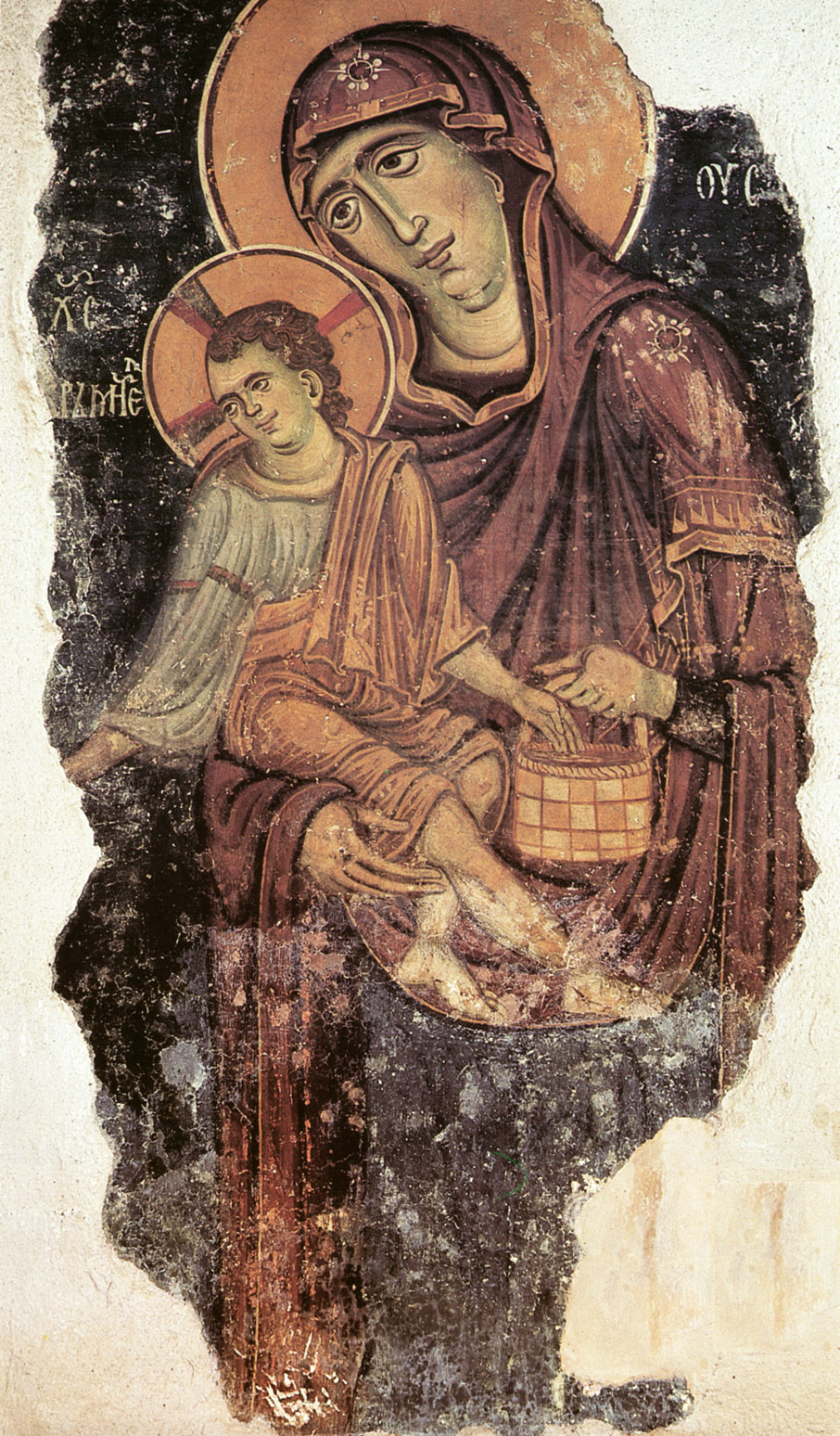 The famous fresco Bathing of the Christ (before it was destroyed and burned by Albanians on 17th march 2004), Bogorodica Ljeviška (Our Lady of Ljevish), Kosovo and Metohija, Serbia. After destruction: File:Ljeviska007b.jpg